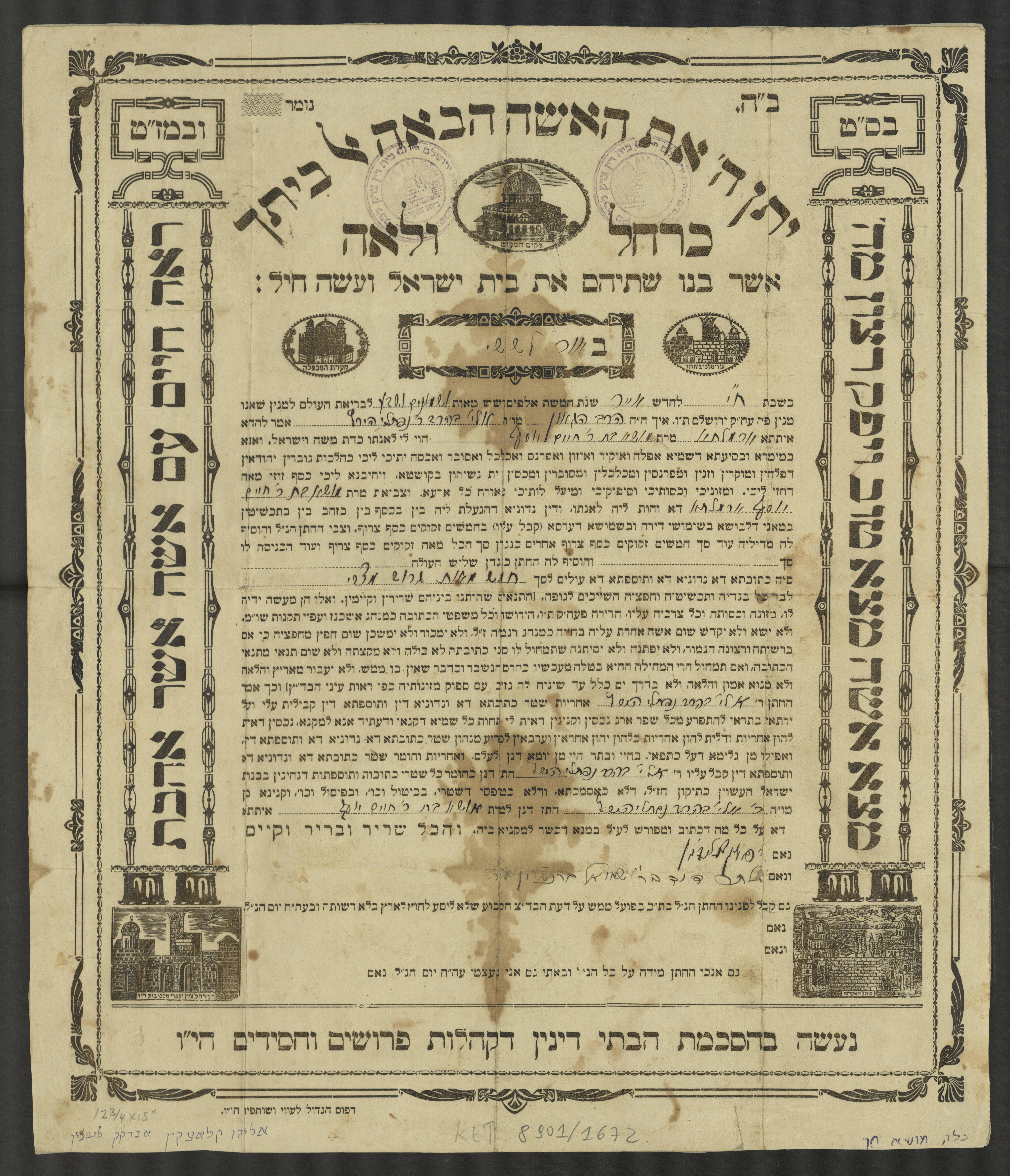 Ketubah of Eliyahu Klatzkin